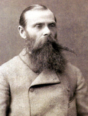 Francišak Bahuševič (1840 - 1900) - Belarusian poet, writer and lawyer, one of the initiators of new Belarusian literature. Photo from 1889.